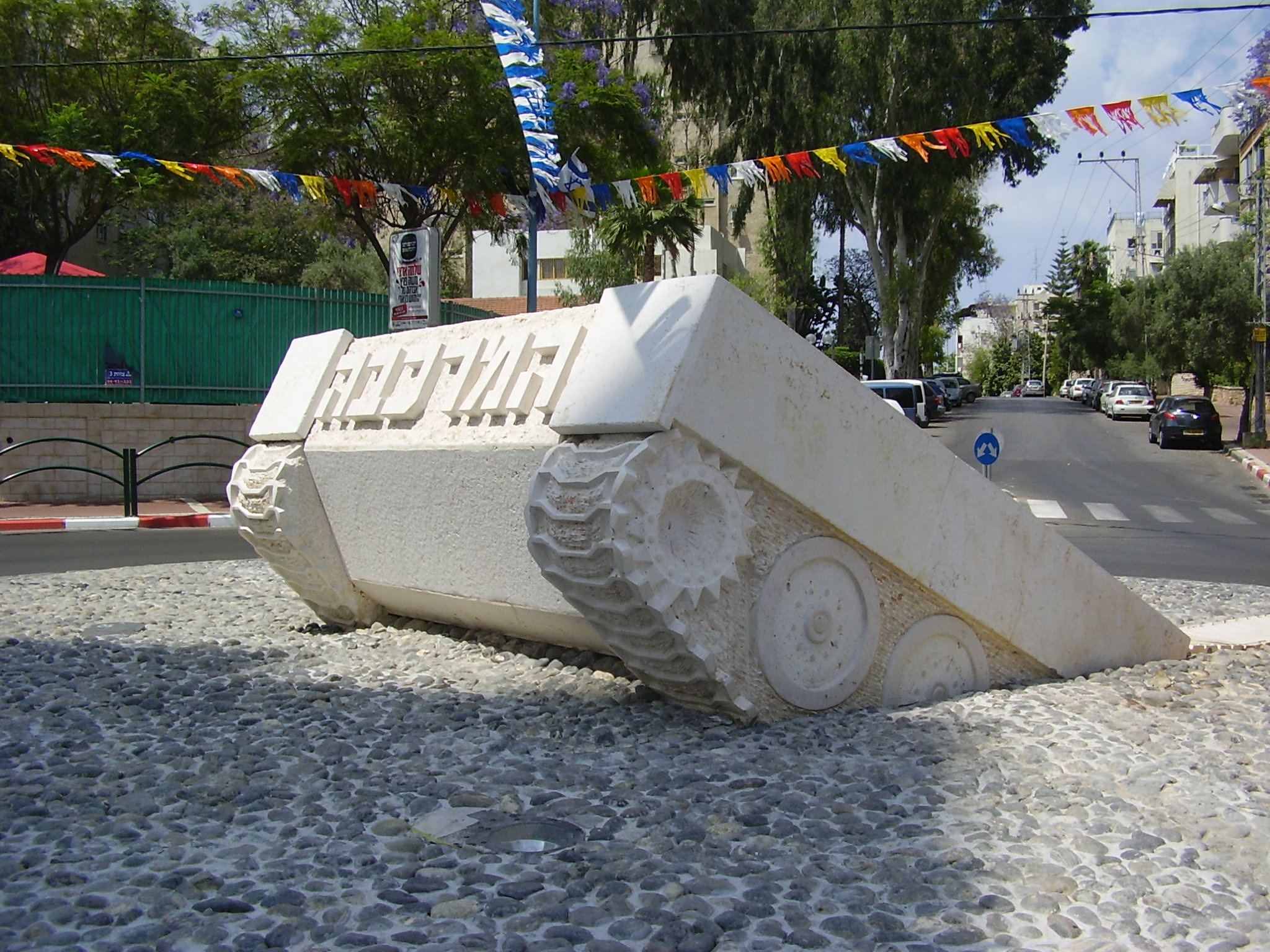 Merkava Tank Monument in Rehovot